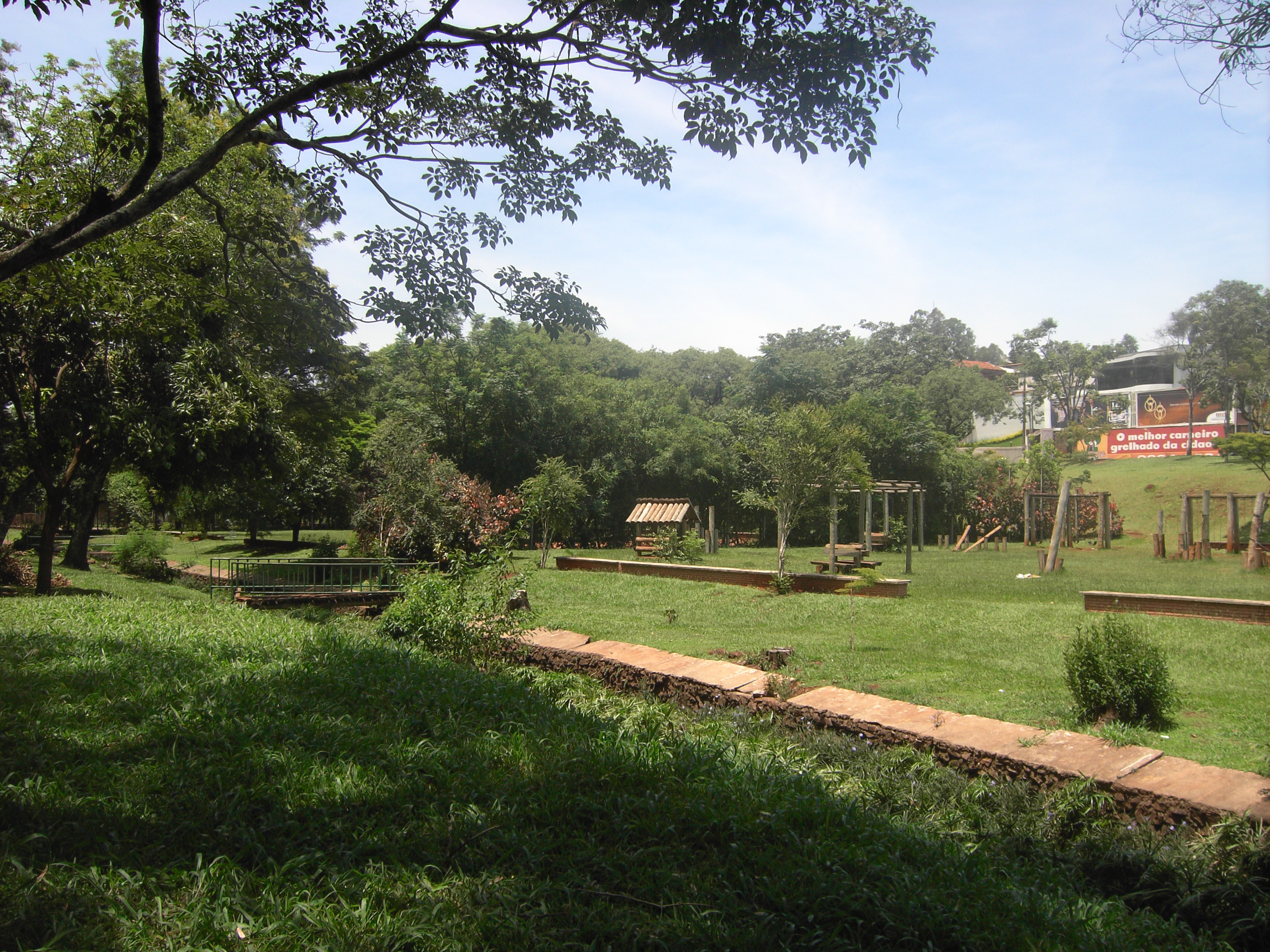 Zerão, Londrina/PR, Brazil.